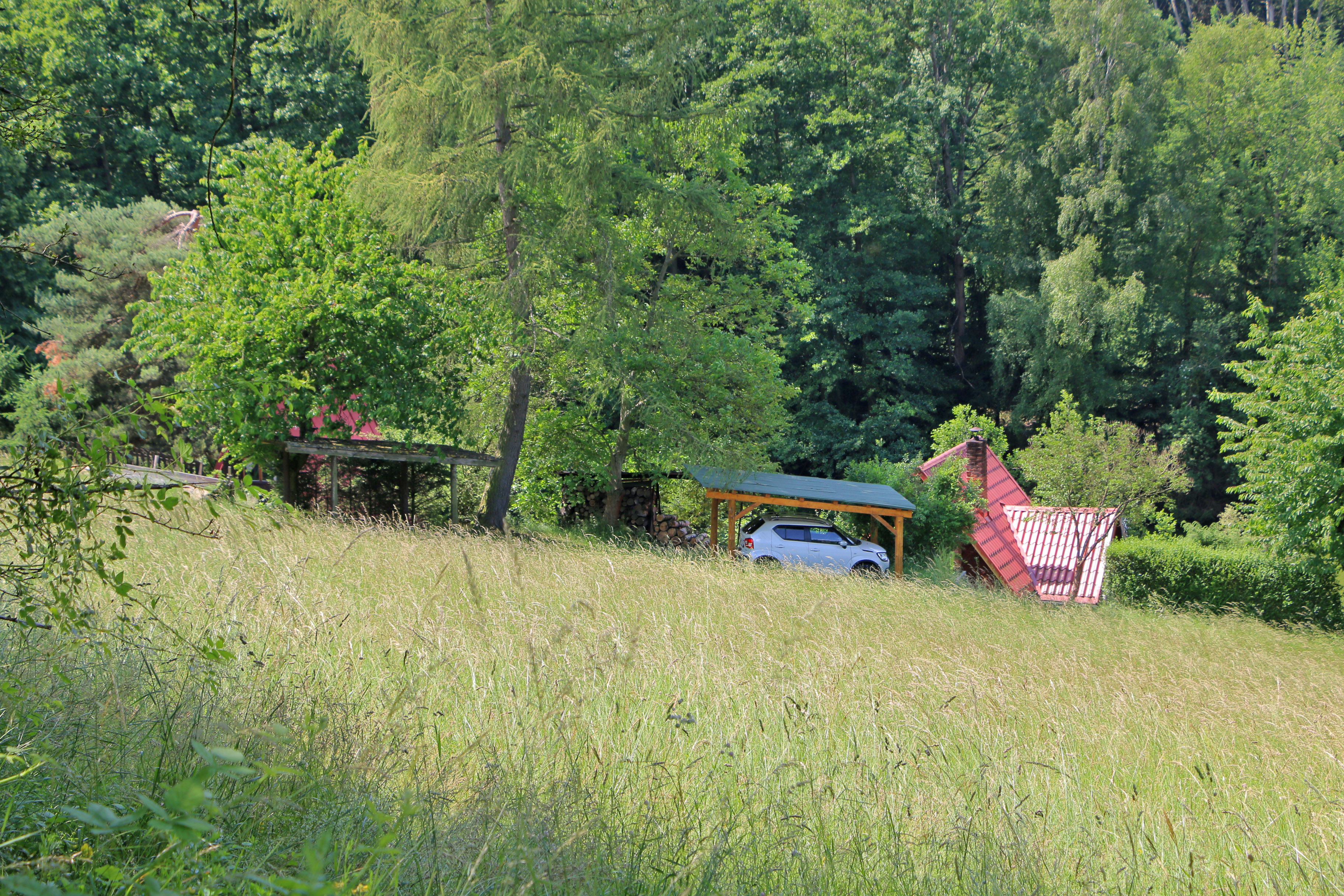 West part of Chlum, part of Přestavlky u Čerčan, Czech Republic.